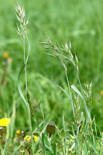 Bromus hordeaceus from Commanster, Belgian High Ardennes .